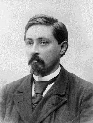 Photo of russian novelist mamin sibiryak